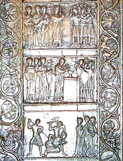 Gniezno Cathedrale Door from 11. century